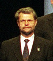 Hans Haekkerup, minister of defense of Denmark, during the informal meeting of NATO defence ministers, October 2000